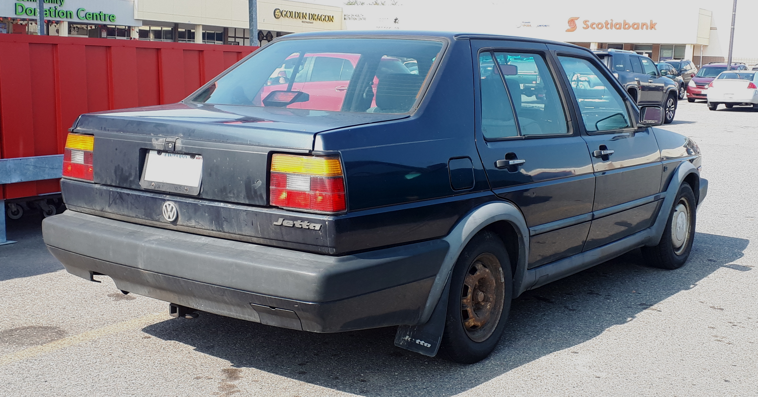 1990-1992 Volkswagen Jetta photographed in Sault Ste. Marie, Ontario, Canada